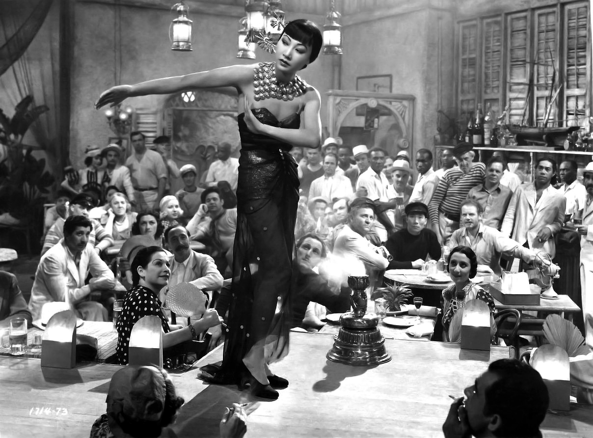 Publicity photo of Anna May Wong dancing in the 1937 film Daughter of Shanghai.